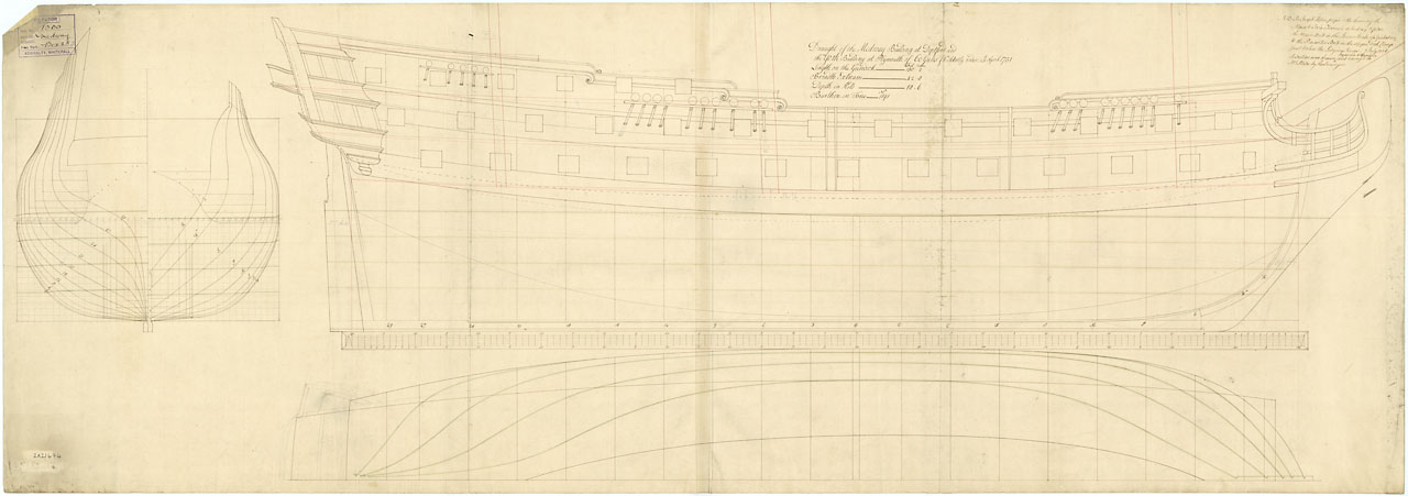 Medway (1755); York (1753) Scale: 1:48. Plan showing the body plan, sheer lines with some inboard detail, and longitudinal half-breadth for Medway (1755) and York (1753), both 60-gun Fourth Rate, two-deckers building at Deptford and Plymouth respectively. The Surveyor (Sir Joseph Allin) proposed to lower the main and fore channels eight inches in July 1754 for the Medway, and a copy was sent to Thomas Slade, Master Shipwright at Deptford. MEDWAY 1755